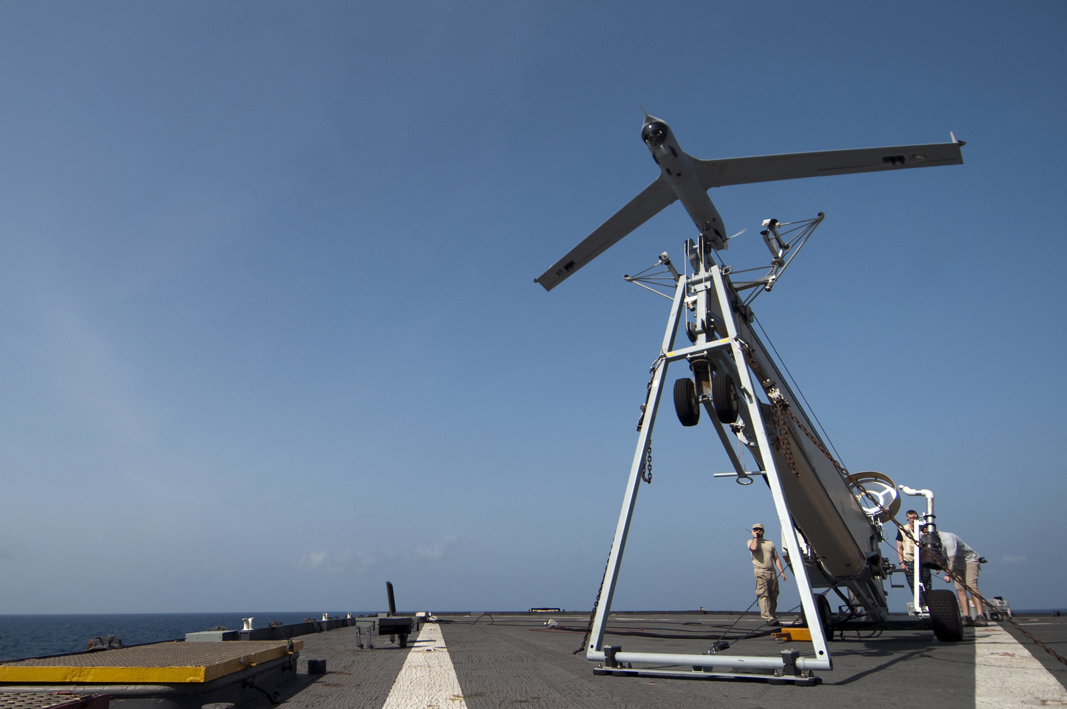 GULF OF ADEN (April 11, 2011) A Scan Eagle unmanned aerial vehicle (UAV) launches from the flight deck of the amphibious dock landing ship USS Comstock (LSD 45). Scan Eagle is a runway independent, long-endurance, unmanned aerial vehicle system designed to provide multiple surveillance, reconnaissance data, and battlefield damage assessment missions. Comstock is part of the Boxer Amphibious Ready Group and is underway in the U.S. 7th Fleet area of responsibility. (U.S. Navy photo by Mass Communication Specialist 2nd Class Joseph M. Buliavac/Released)